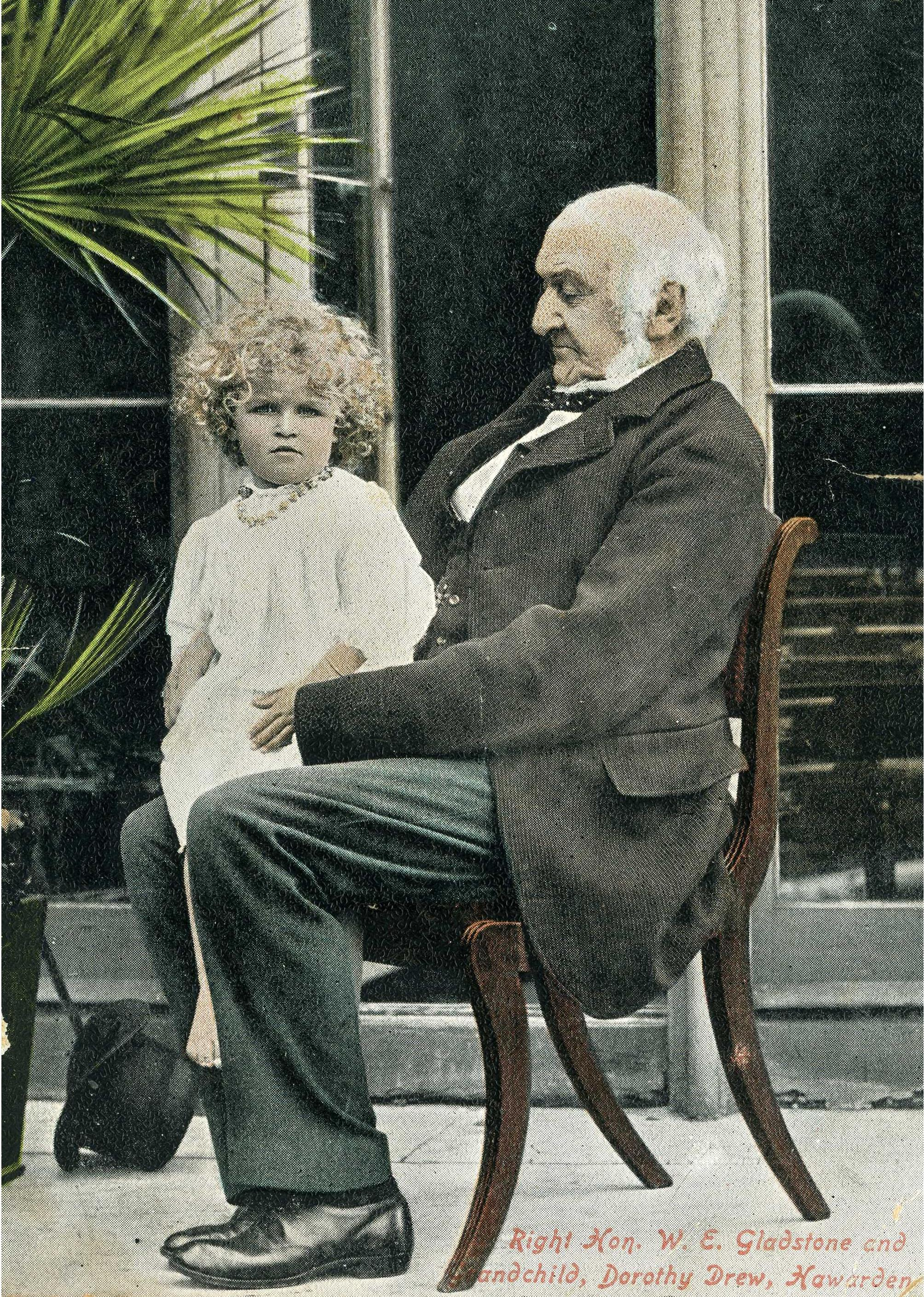 Postcard published by Valentine's inscribed "Right Hon. W. E. Gladstone and grandchild, Dorothy Drew, Hawarden", the photo taken about 1894, the card with a King Edward VII stamp and a short message on the back dated 1906.